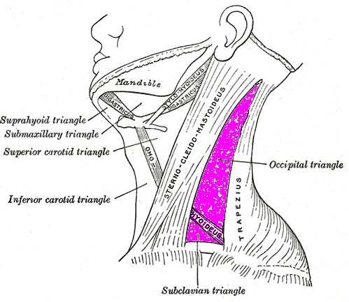 Posterior triangle of the neck labeled. (Anterior triangles to the left. Occipital triangle labeled at center left.) ). Cystic hygromas are classically found in the posterior triangle of the neck (purple).